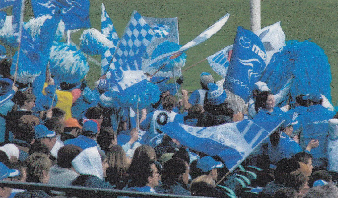 The cheer squad of the North Melbourne Kangaroos against Hawthorn in Round 14 of the 2004 AFL Season.